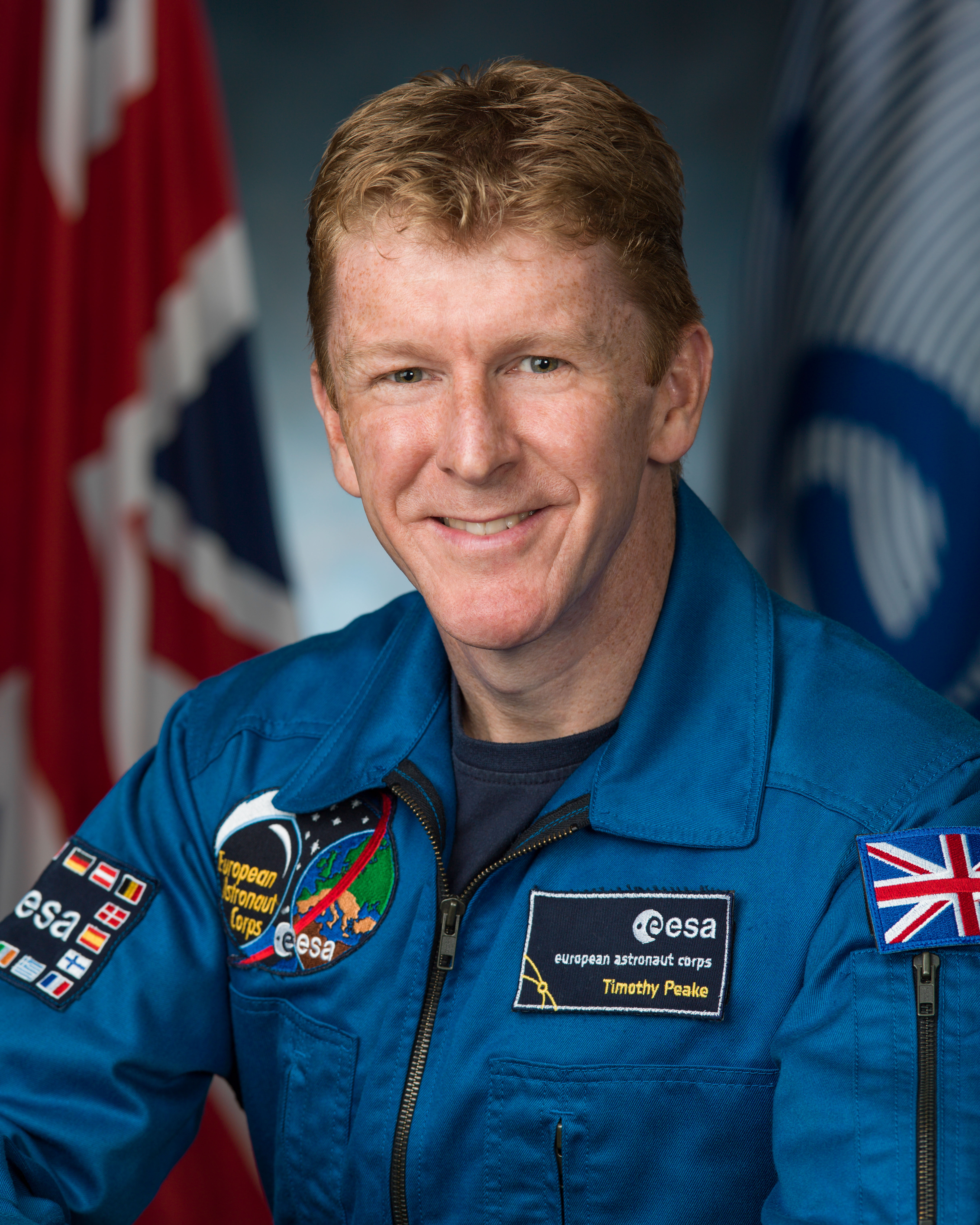 Official NASA portrait of British astronaut Timothy Peake a member of Expedition 46 and 47.